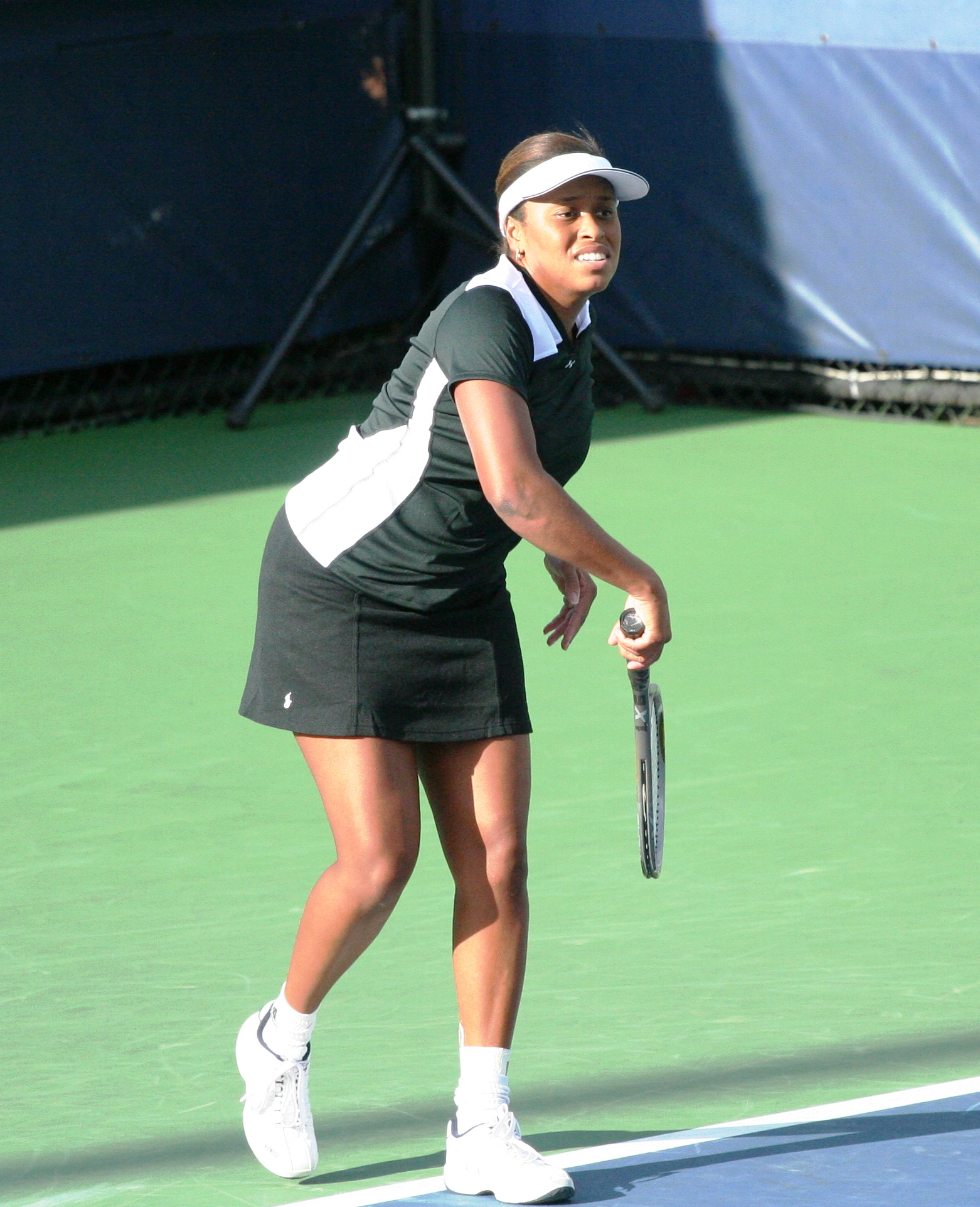 U.S. Open Champions Team Tennis Thursday, Sept. 9, 2010